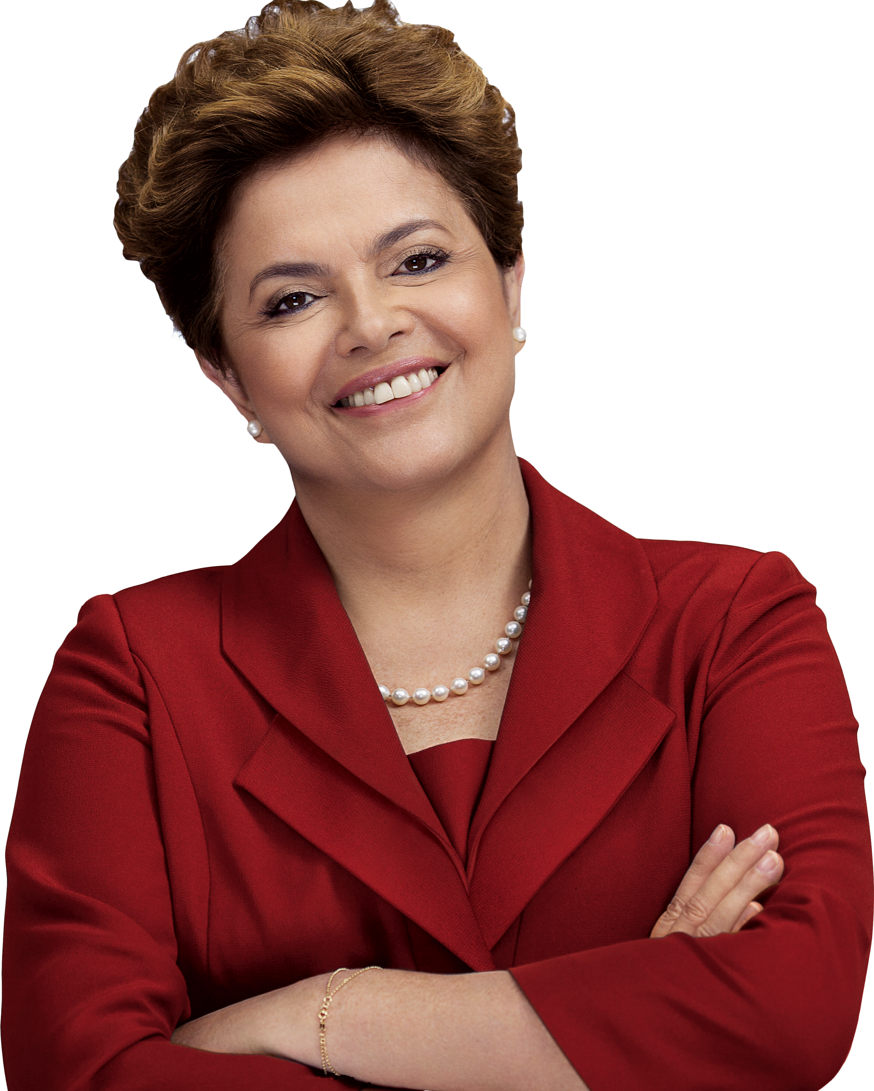 Dilma Rousseff in 2010